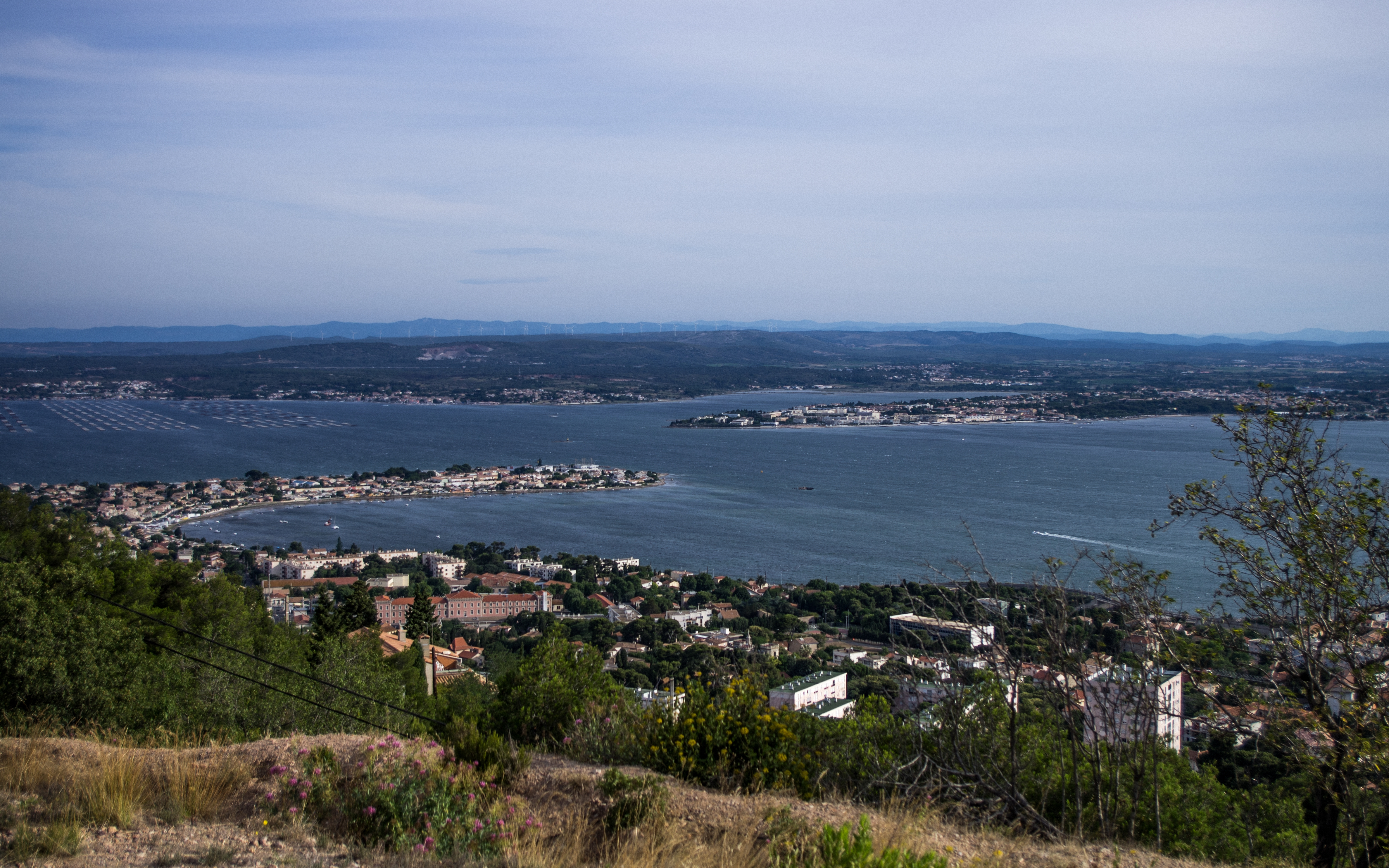 The Étang de Thau and the town of Sète from Mount Saint-Clair, Hérault, France.